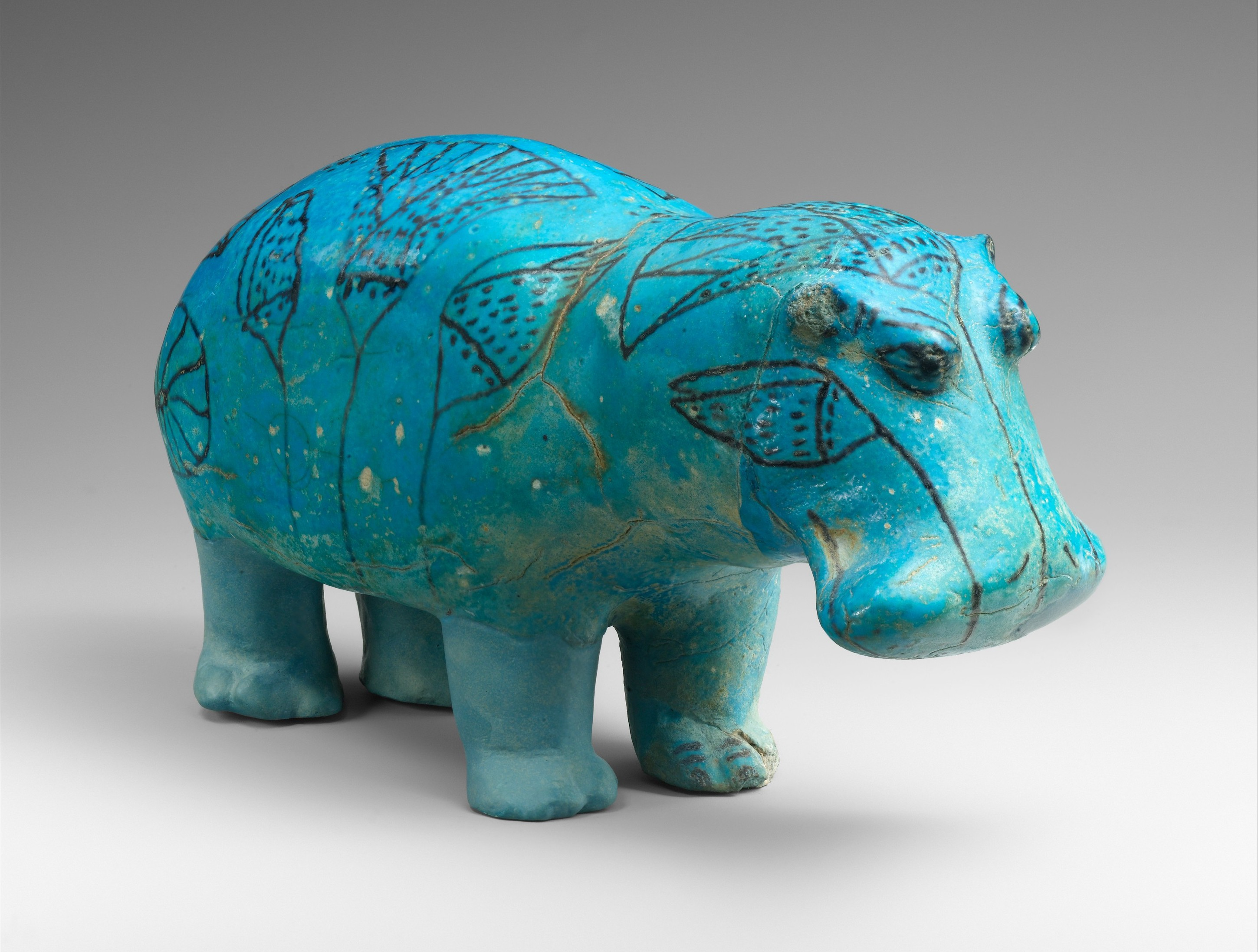 Standing Hippopotamus